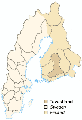 Map Historical Provinces of Finland, Tavastland © Mic, 2003 Released under the GNU Free Documentation License See also: Provinces of Sweden